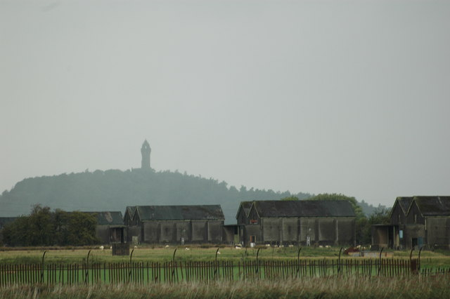 RN Ammunition Depot, Throsk